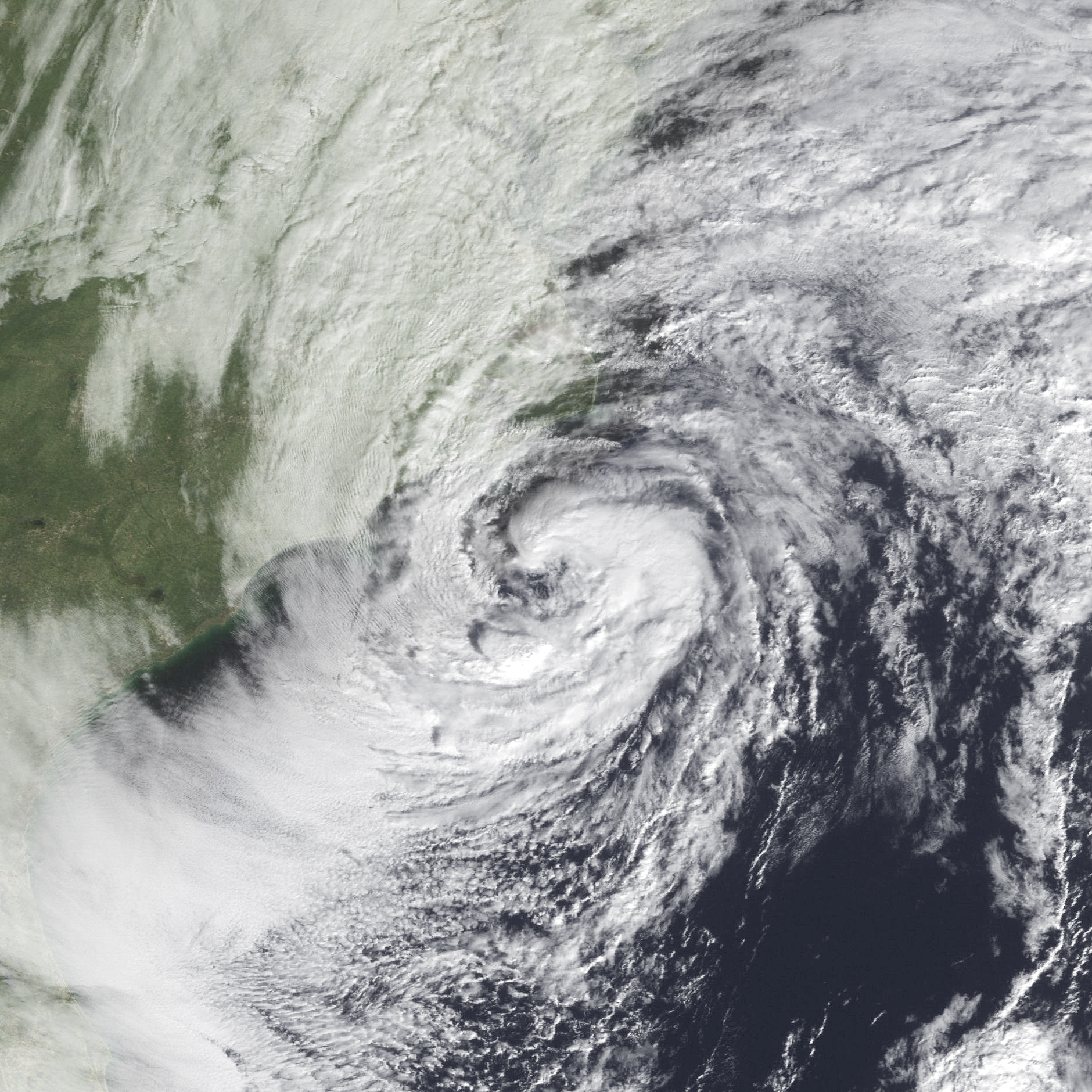 Hurricane Gordon at peak intensity off the coast of North Carolina on November 18, 1994